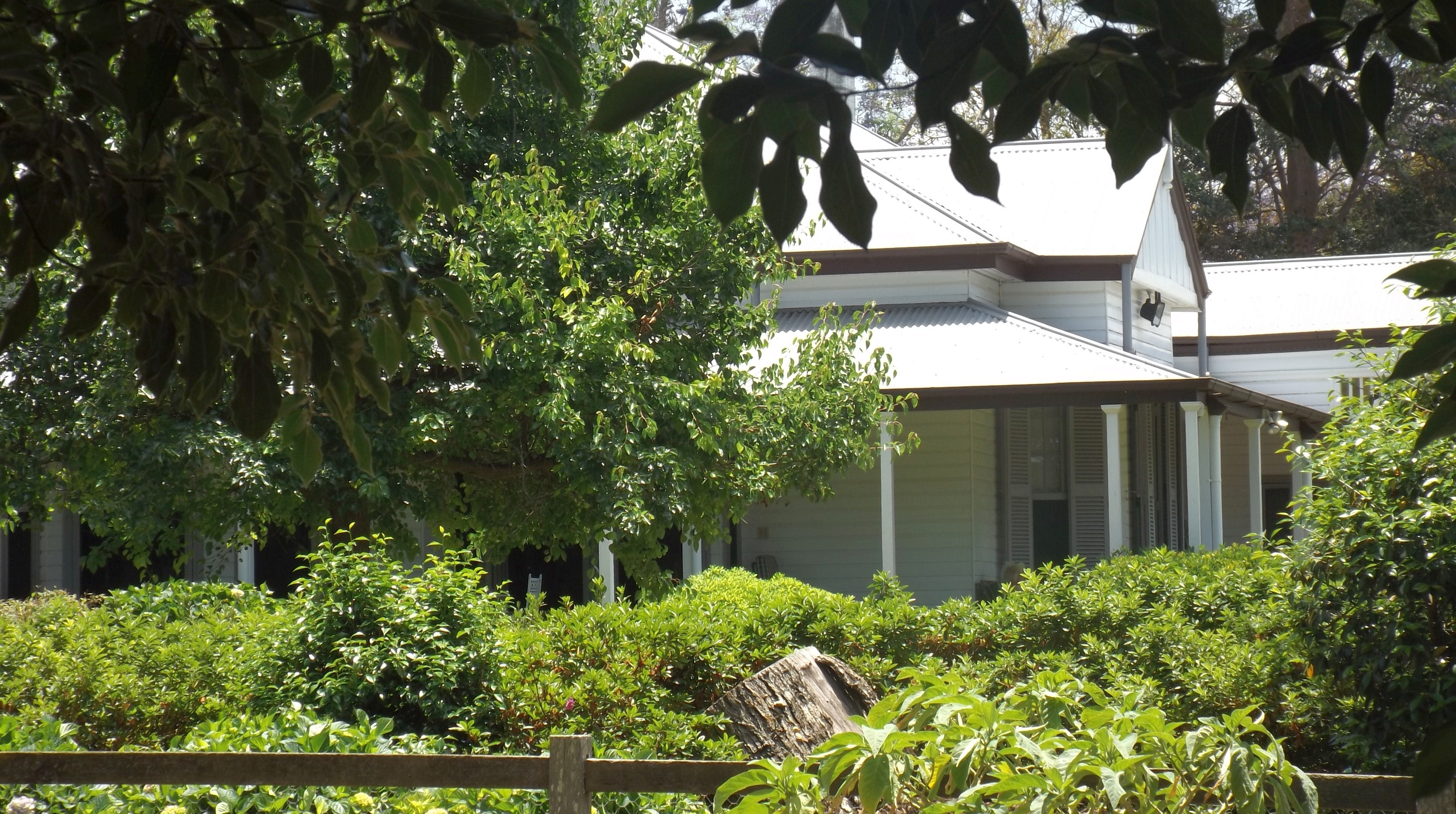 Photo of Tor residence and garden in Newtown, Toowoomba, Queensland, Australia.